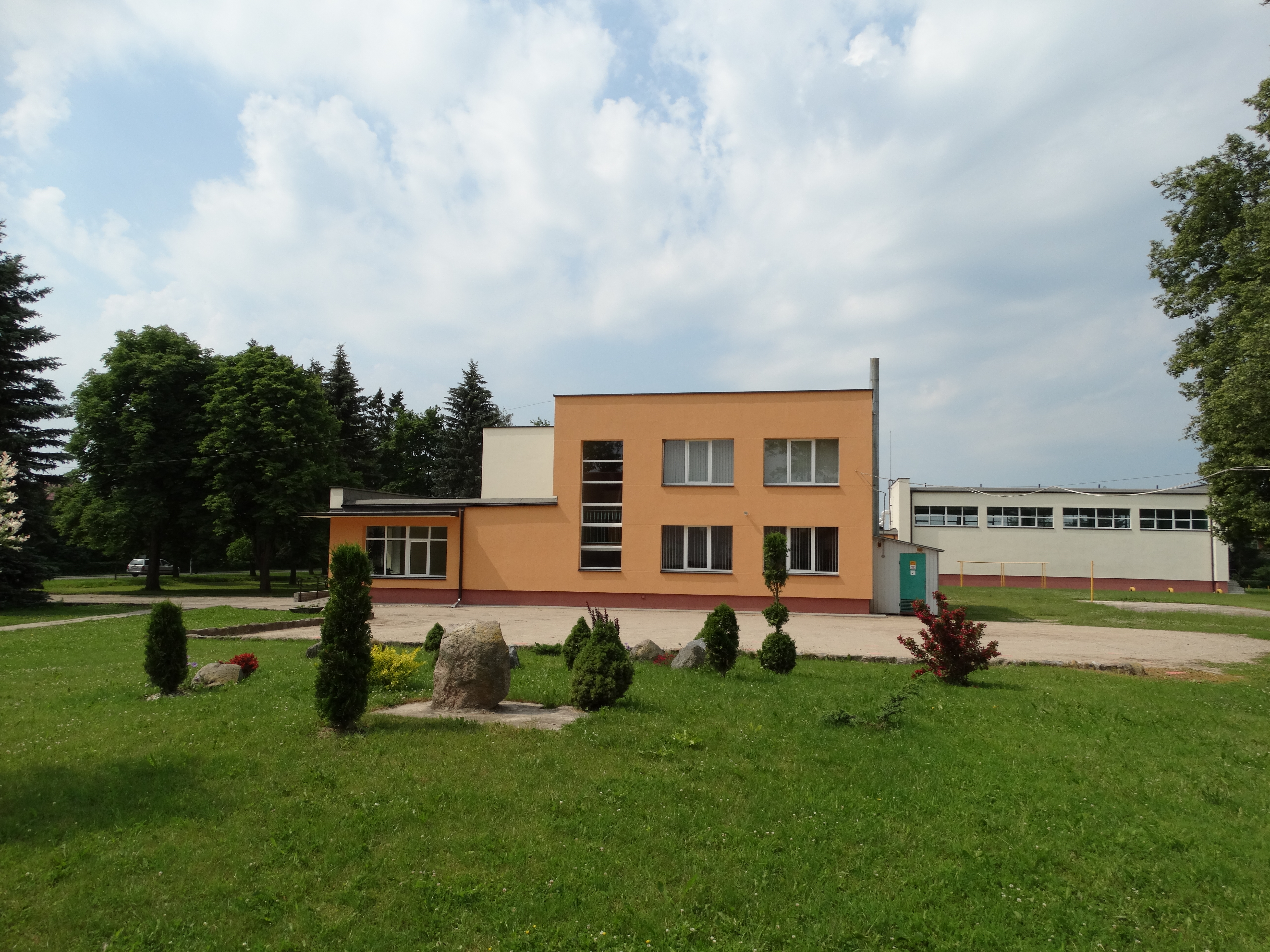 School, Deltuva, Ukmergė District, Lithuania